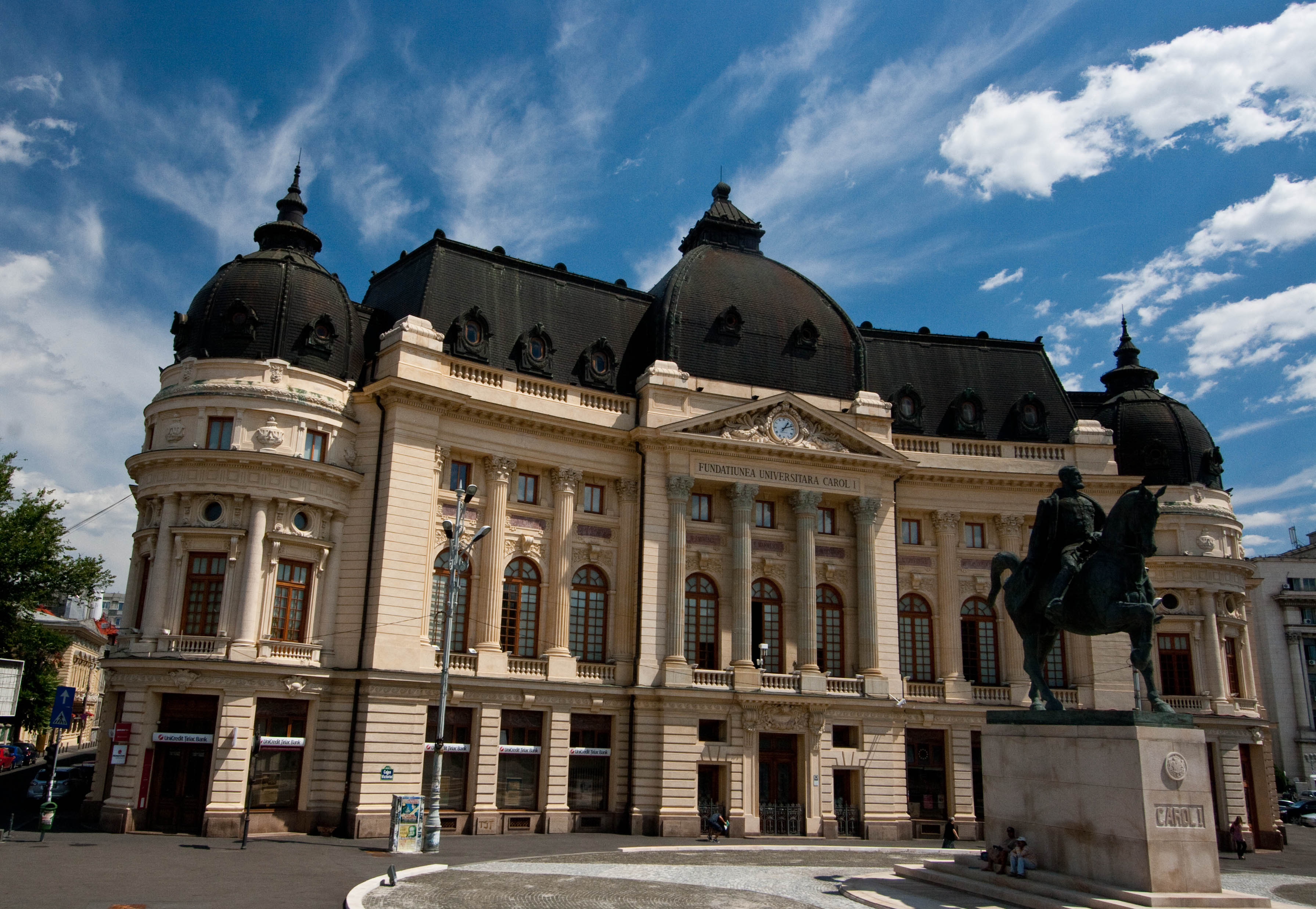 The Central University Library of Bucharest in Piatia Revolutiei.